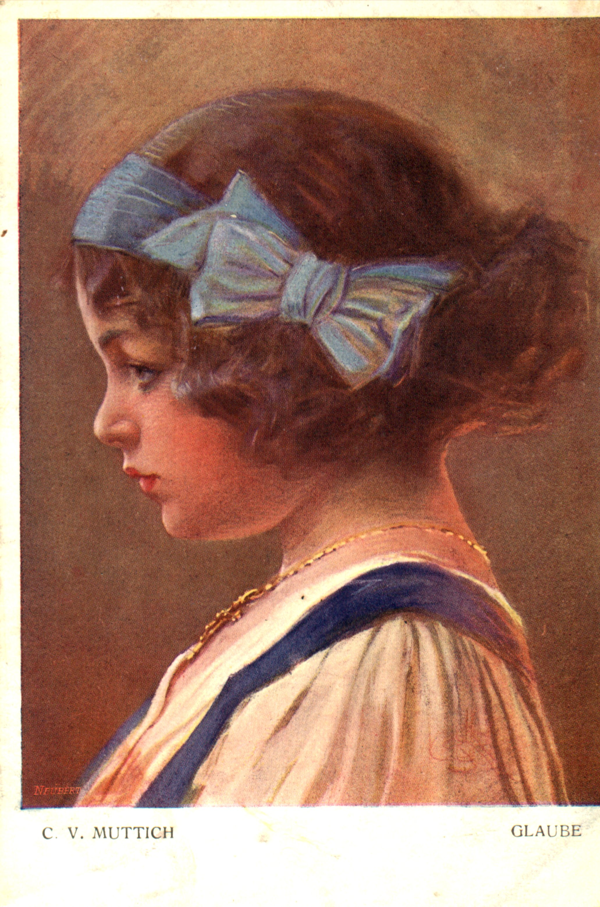 C.V.Muttich: Believe